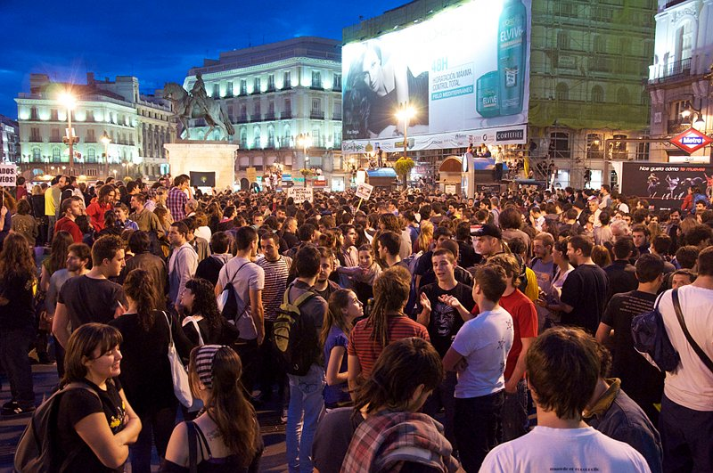 Protest in Sol Square, Madrid. On the 17th at night.